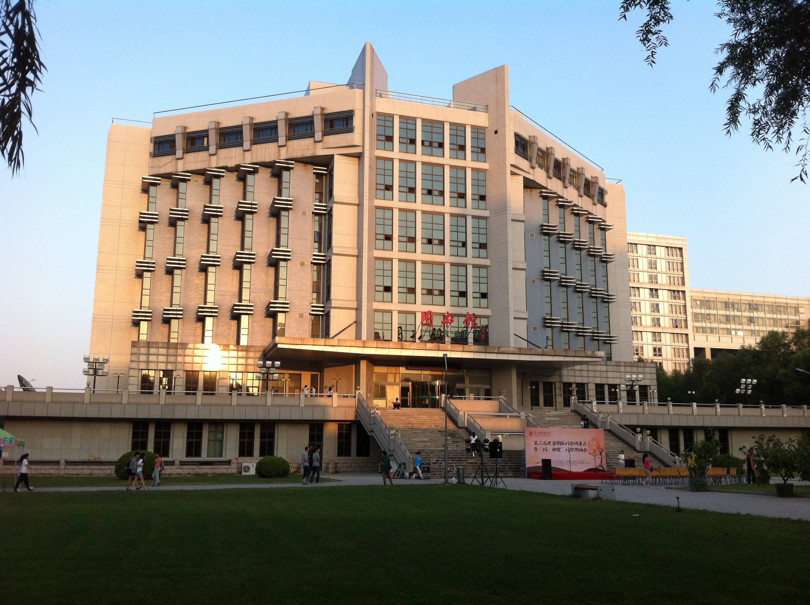 The library at the North Campus #1, CNU. This campus is home to departments of liberal arts, including Chinese, foreign languages, history, politics, management, along with Marxism education.